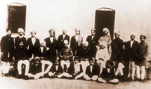 Photograph of the staff and students of the National College, Lahore, founded in 1921 by Lala Lajpat Rai with a view to training students for the non-cooperation movement. Standing, fourth from the right, is Bhagat Singh, later to be executed by the British for his revolutionary activities. Downloaded from this web site